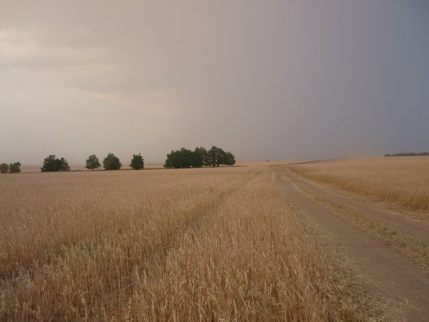 The grain field of Iske Chechqb